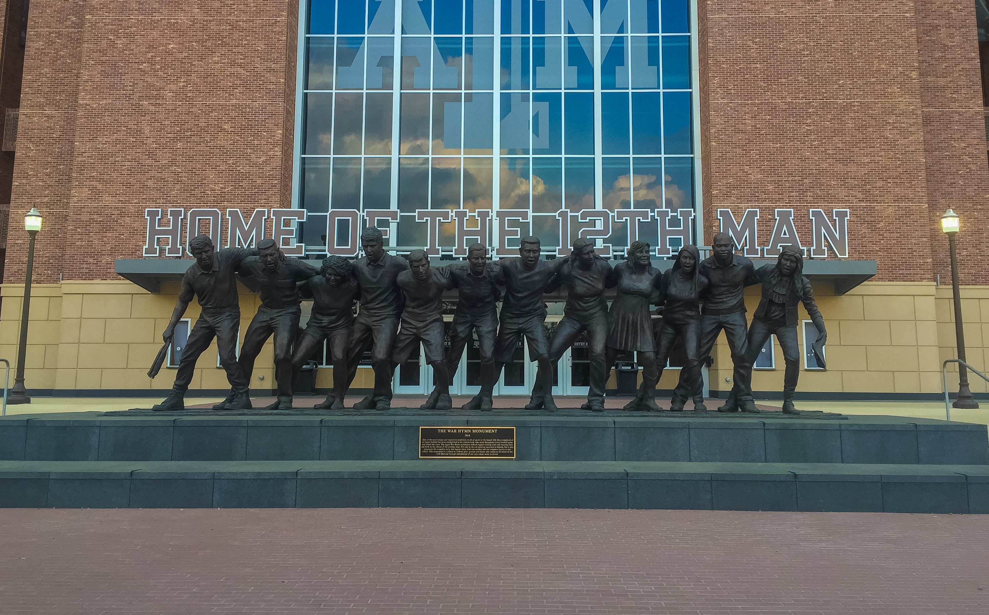 Aggie War Hymn statue at Kyle Field, Texas A&M Univeristy